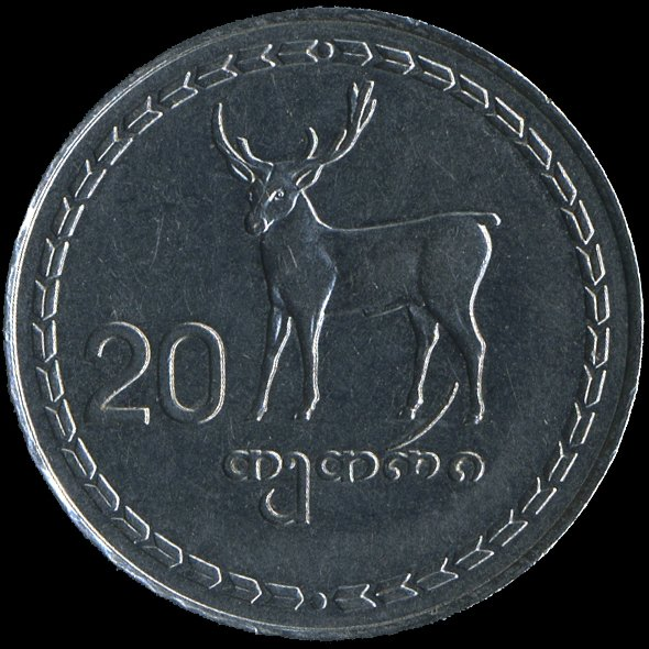 20 Georgian tetri